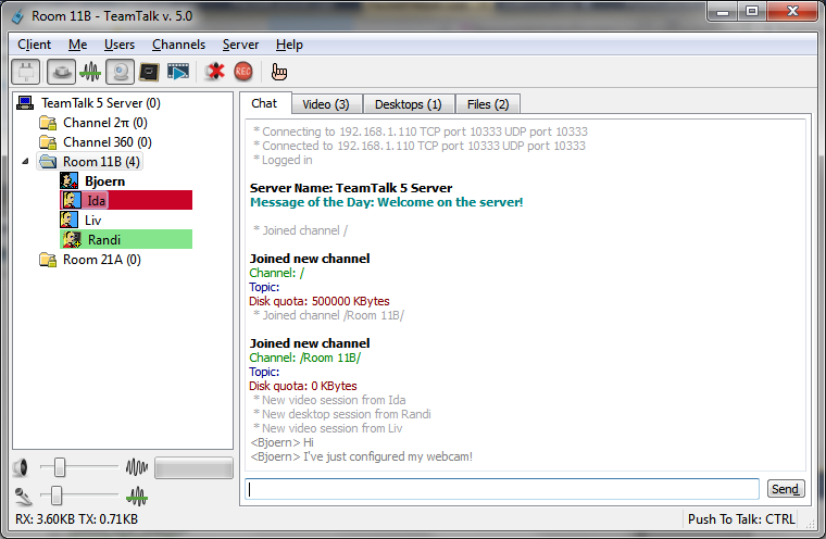 TeamTalk 5 main window